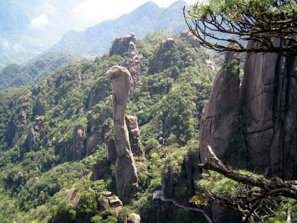 SanQingShan